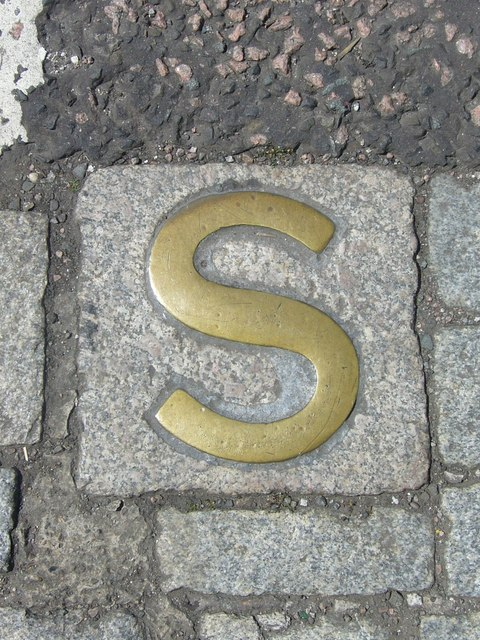 Sanctuary marker, Holyrood Abbey One of three brass markers in the roadway outside Holyrood Palace, delineating the former sanctuary boundary of Holyrood Abbey. Although records go back further, the policy of granting sanctuary to debtors appears to have been formalised after Charles I appointed the Duke of Hamilton and his heirs to be Keepers of the Palace in 1646. The 'abbey lairds', as the debtors were called, enjoyed the privilege of being allowed to leave the sanctuary between midnight on Saturday and midnight on Sunday without fear of arrest. Their number included Thomas de Quincey, author of Confessions of an English Opium Eater, who lived within the sanctuary at various times between 1833 and 1840. Another famous resident was Charles-Philippe, Comte d'Artois, brother of the deposed Louis XVIII of France. His first arrival in 1796 was prompted by the massive debts he had incurred supplying the émigré army after the French Revolution. He returned in 1830 after reigning briefly as Charles X, complete with his retinue of a hundred, most of whom lodged in the Canongate. But the political climate in Britain was changing at the time of the 1832 Reform Act and this induced him to leave, embarking from the Chain Pier near Newhaven on a steam-boat to Hamburg. The last occasion a person sought sanctuary at Holyrood was in 1880.